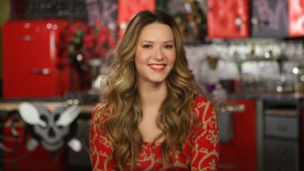 Nadia Giosia on the set of Sick Kitchens